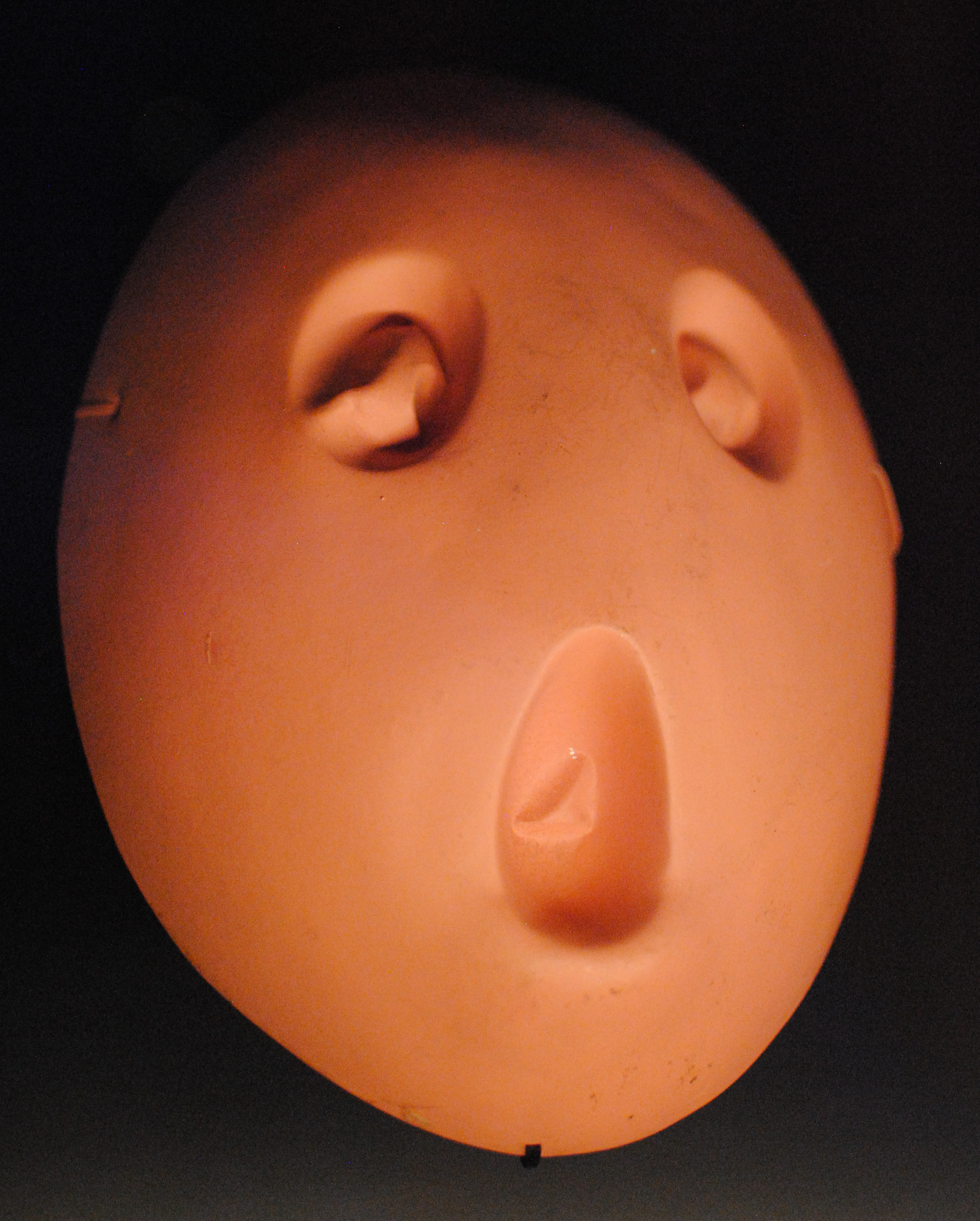 displayed at the Pink Floyd: Their Mortal Remains exhibition at the Victoria and Albert Museum.